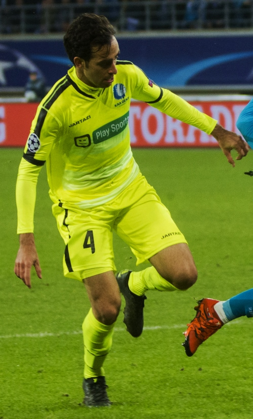 Rafael Scapini de Almeida